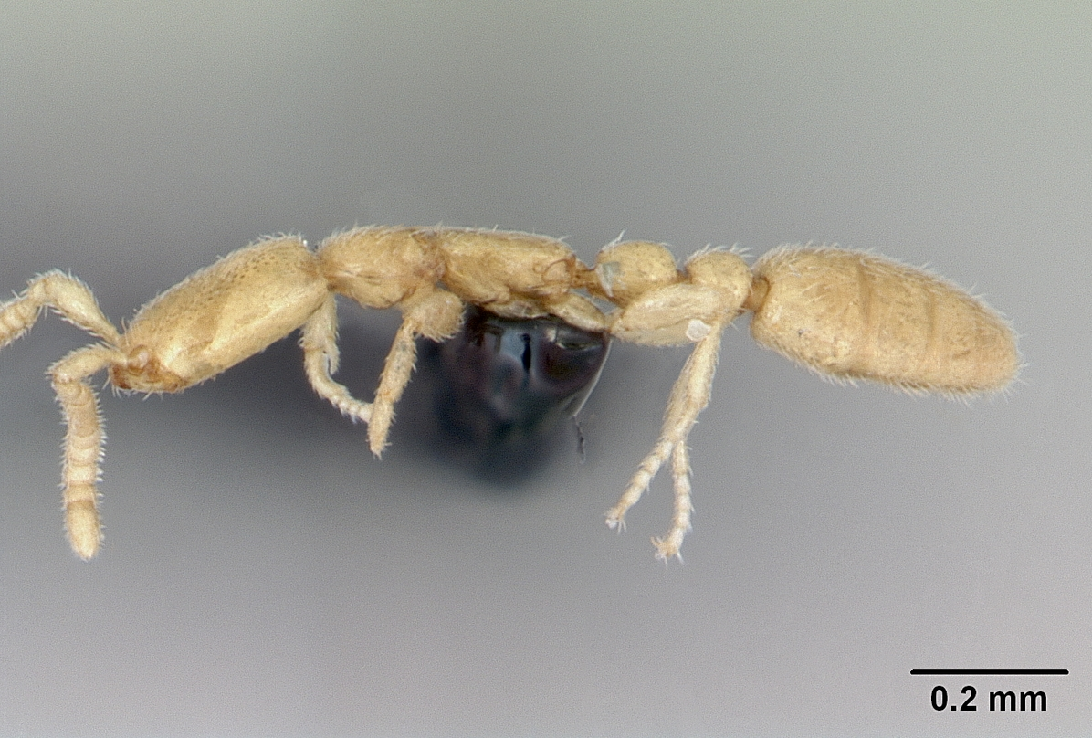 Profile view of ant Leptanilla revelierii specimen casent0006788.